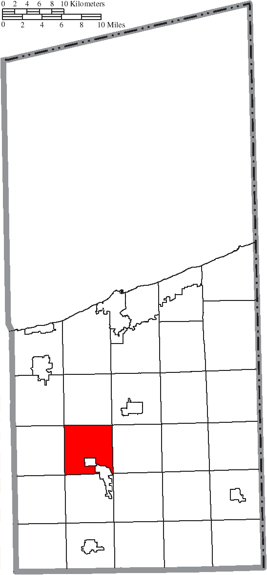 Map of the municipal and township boundaries of Ashtabula County, Ohio, United States, as of the 2000 census, with the location of Morgan Township highlighted. Township borders are shown only in unincorporated areas in order to differentiate incorporated and unincorporated areas more clearly.